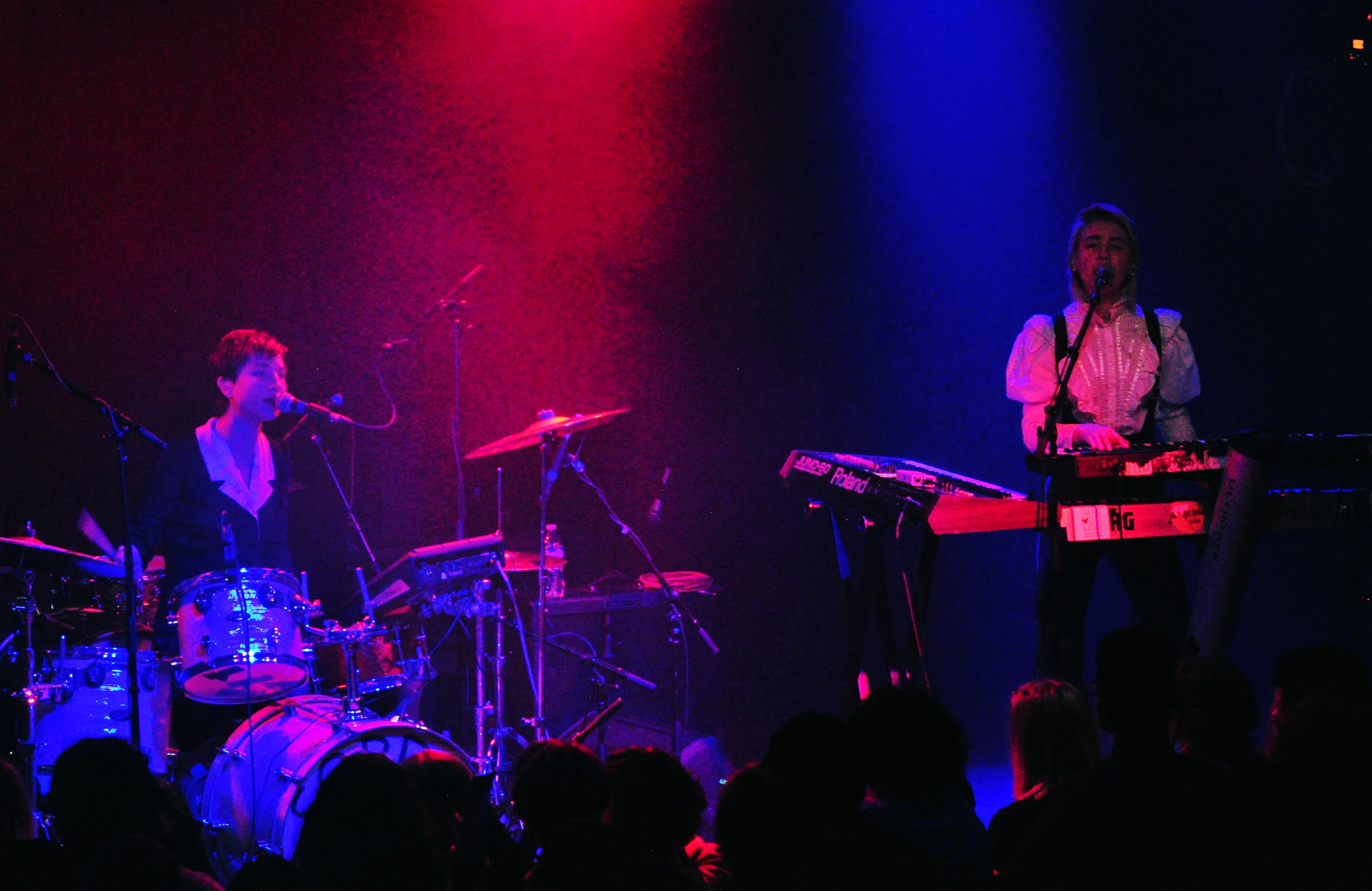 Chaos Chaos performing at Neumos in Seattle November 30, 2017.